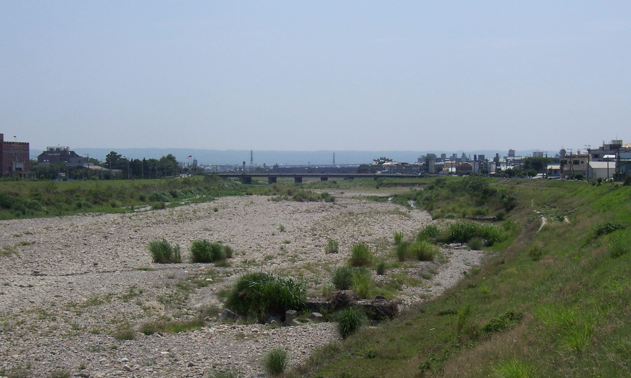 Caohu River. It was taken at Dali City,Taichung County,Taiwan.